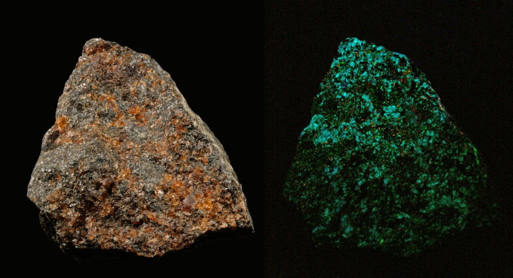 Fluorite, variety Chlorophane Locality: Buckwheat dump mineral collecting site, Franklin, Franklin Mining District, Sussex Co., New Jersey, USA Dimensions: 7cm x 7cm x 7cm Description: Found on the Buckwheat Dump. MOB coll. The SW response is an approximation. With the naked eye I just see green. But my camera thinks there is blue as well. Of course blue is not surprising for fluorite so maybe it’s really there. My UV source is weak so I need long exposures. Perhaps that explains why the camera sometimes picks up colors (such as the orange spots) that I’m not aware of visually. Anyway – just a rough indication. This specimen has been kept in the dark (mostly) but it’s not as bright as a freshly broken surface. This stuff also phosphoresces, glows when heated and also when struck (triboluminescent). Used to be this stuff was available by the bucketful.